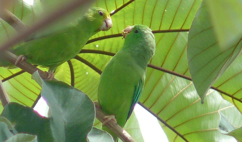 Green-rumped Parrotlet (Forpus passerinus). a pair, male (right) and female (left), in Venezuela